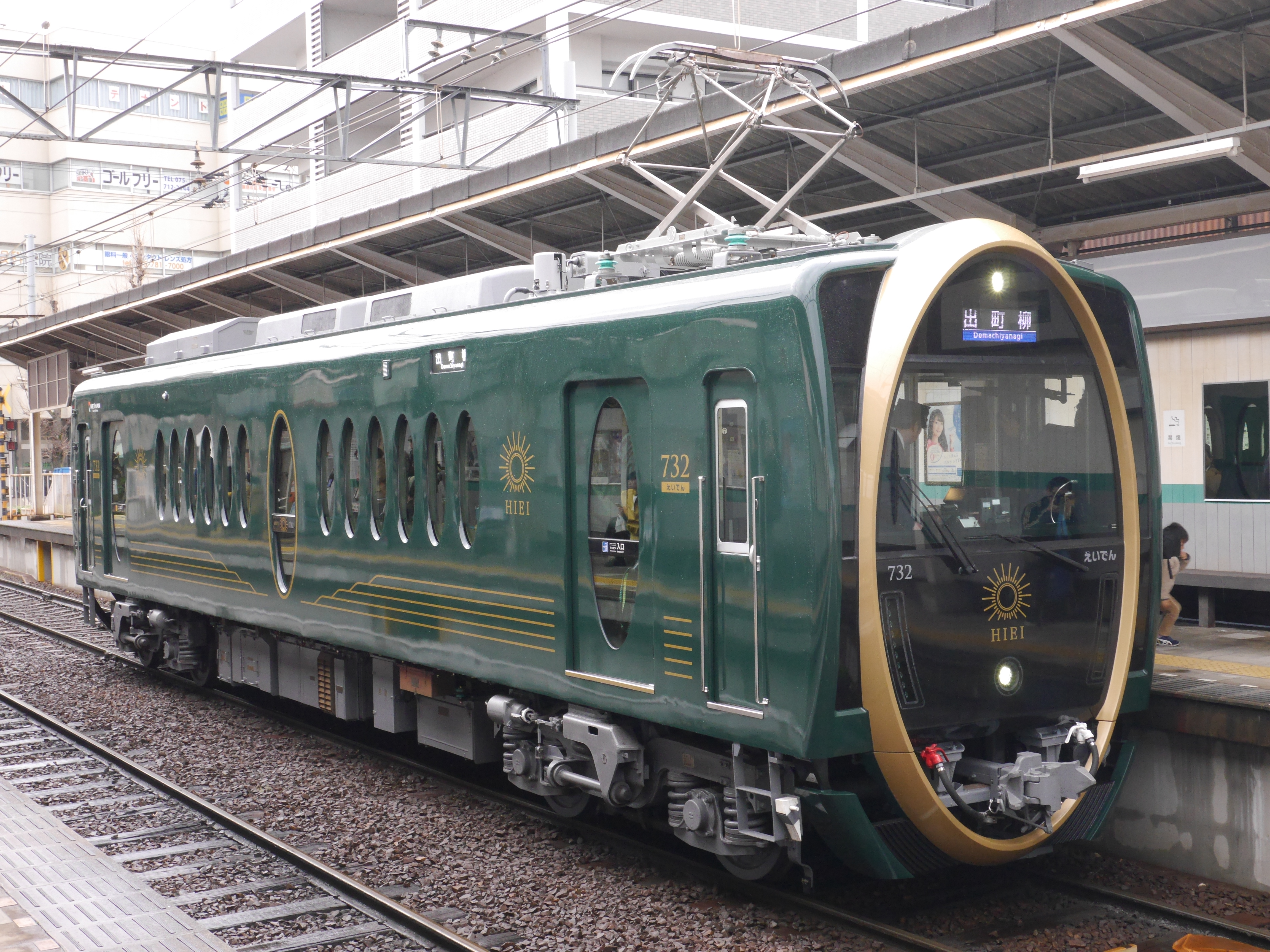 Eizan Electric Railway "Hiei" at Shugakuin station